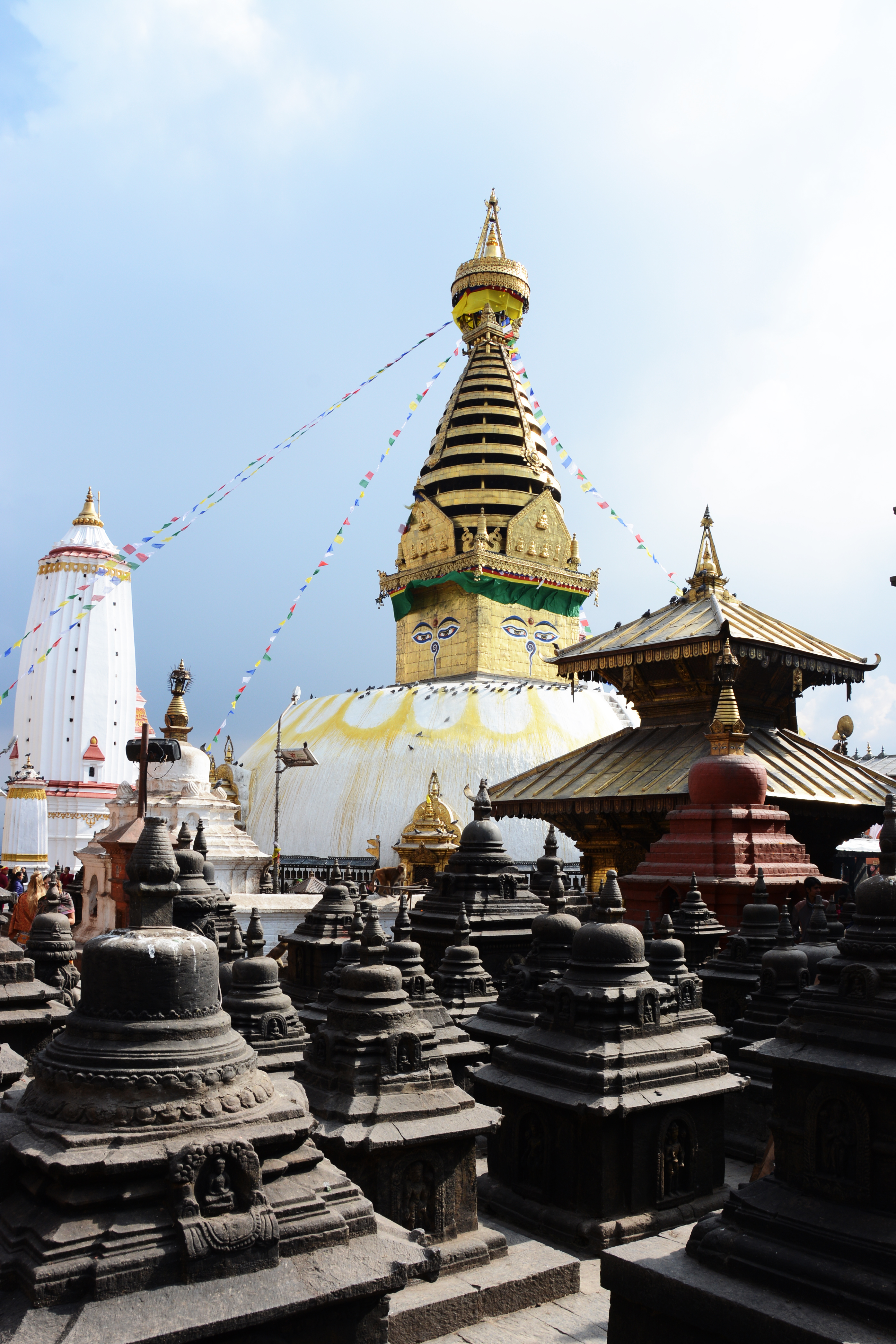 Swoyambhu, Kathmandu Nepal